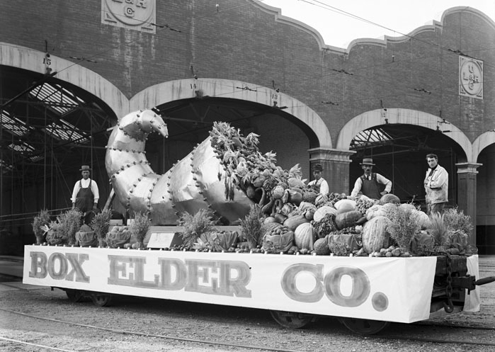 Box Elder County Float, Trolley Square, SLC, 1912 Commercial photo taken on assignment, published 1912. PhotographerShipler Commercial Photographers; Shipler, Harry URL